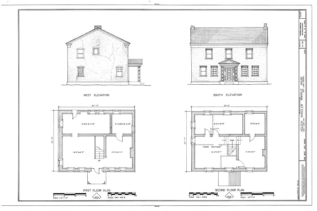 HABS drawings of the Nelson Wheeler Whipple House, Salt Lake City, Utah, USA